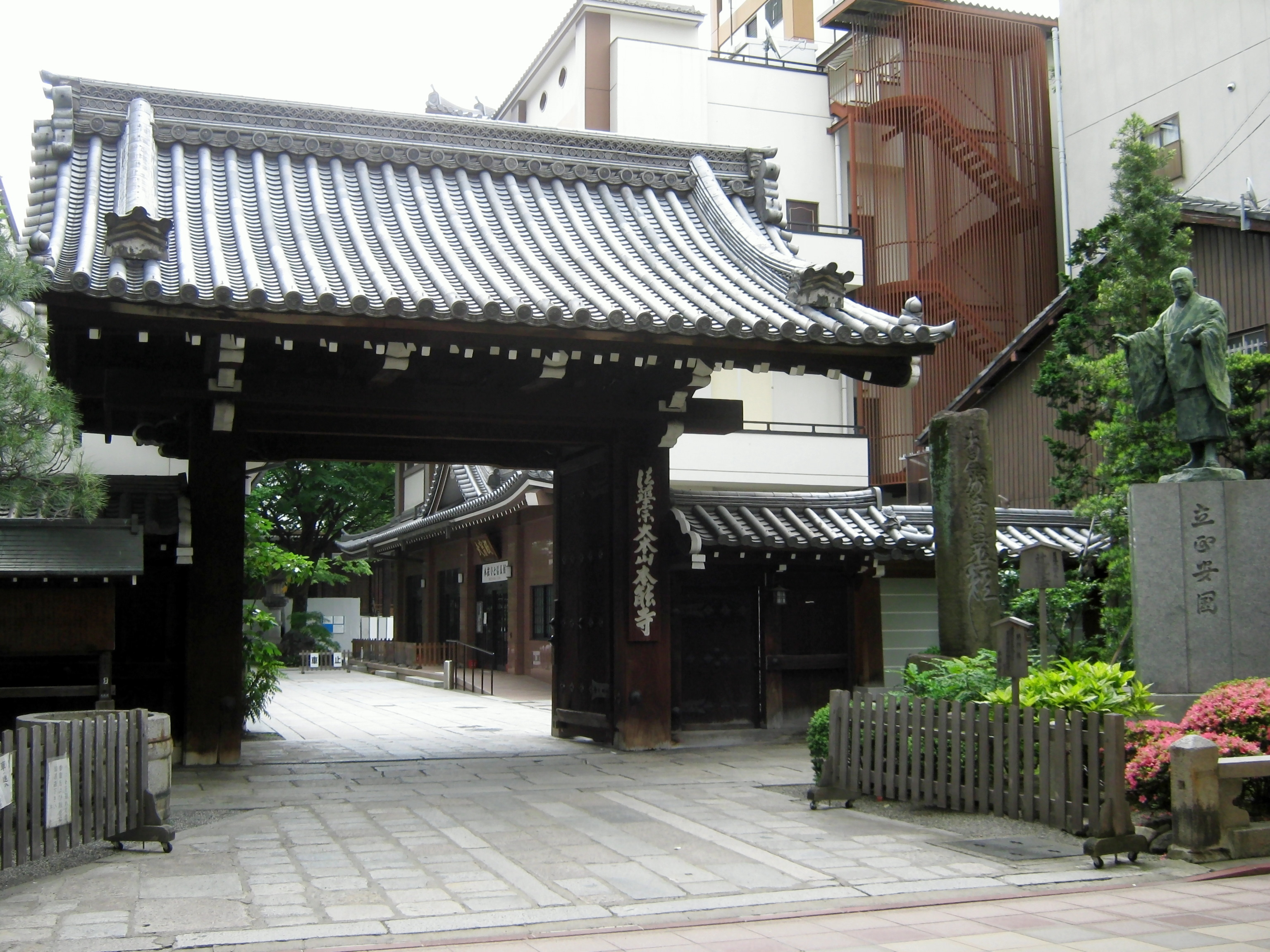 honnouji